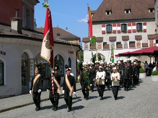 Fronleichnamsprozession Hall in Tirol. Oberer Stadtplatz Blick Richtung Rathaus